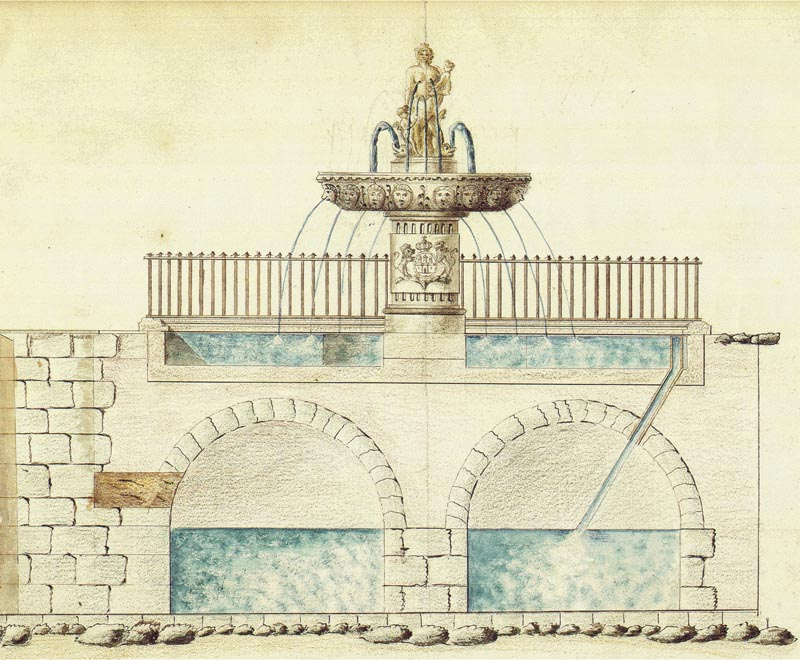 Drawing of the Caritas Fountain in Copenhagen, Denmark, commissioned by mayor Hans Christopher Hersleb probably in the 1770s.